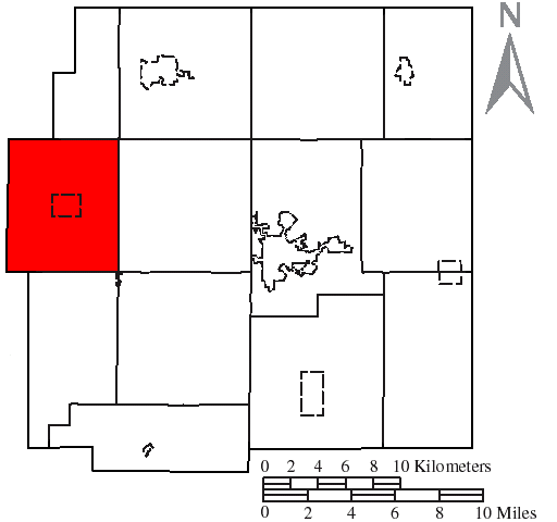 Made by the US Census and modified by myself